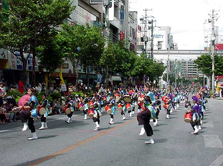 Eisaa